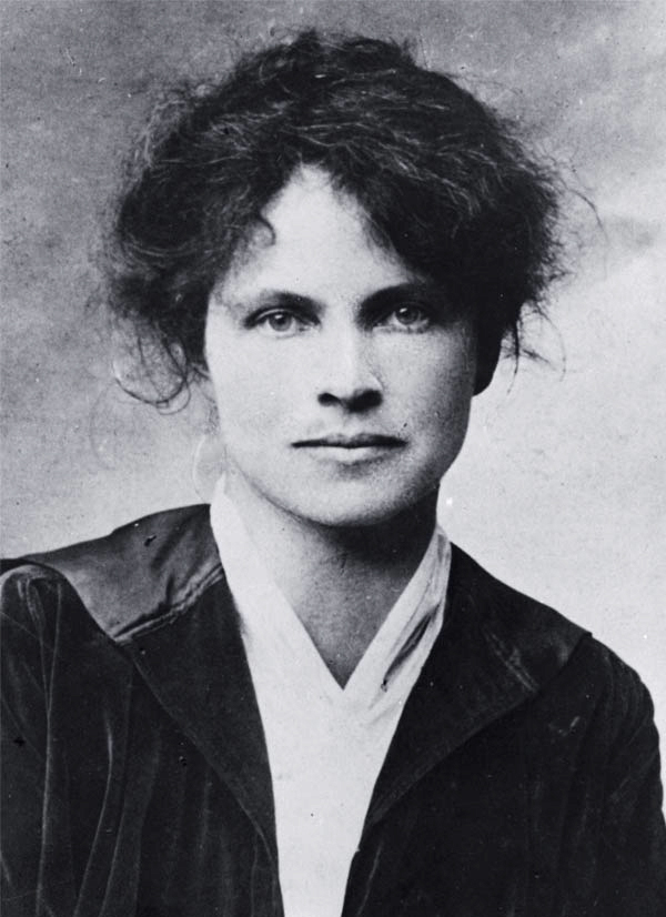 Noted Vermont Author, Dorothy Canfield Fisher, as a young woman. Nee Dorothea Frances Canfield, Her dates are b. February 17, 1879, d. November 9, 1958